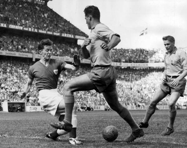 Harry Bild and Rune Börjesson at Idrottsparken in Copenhagen